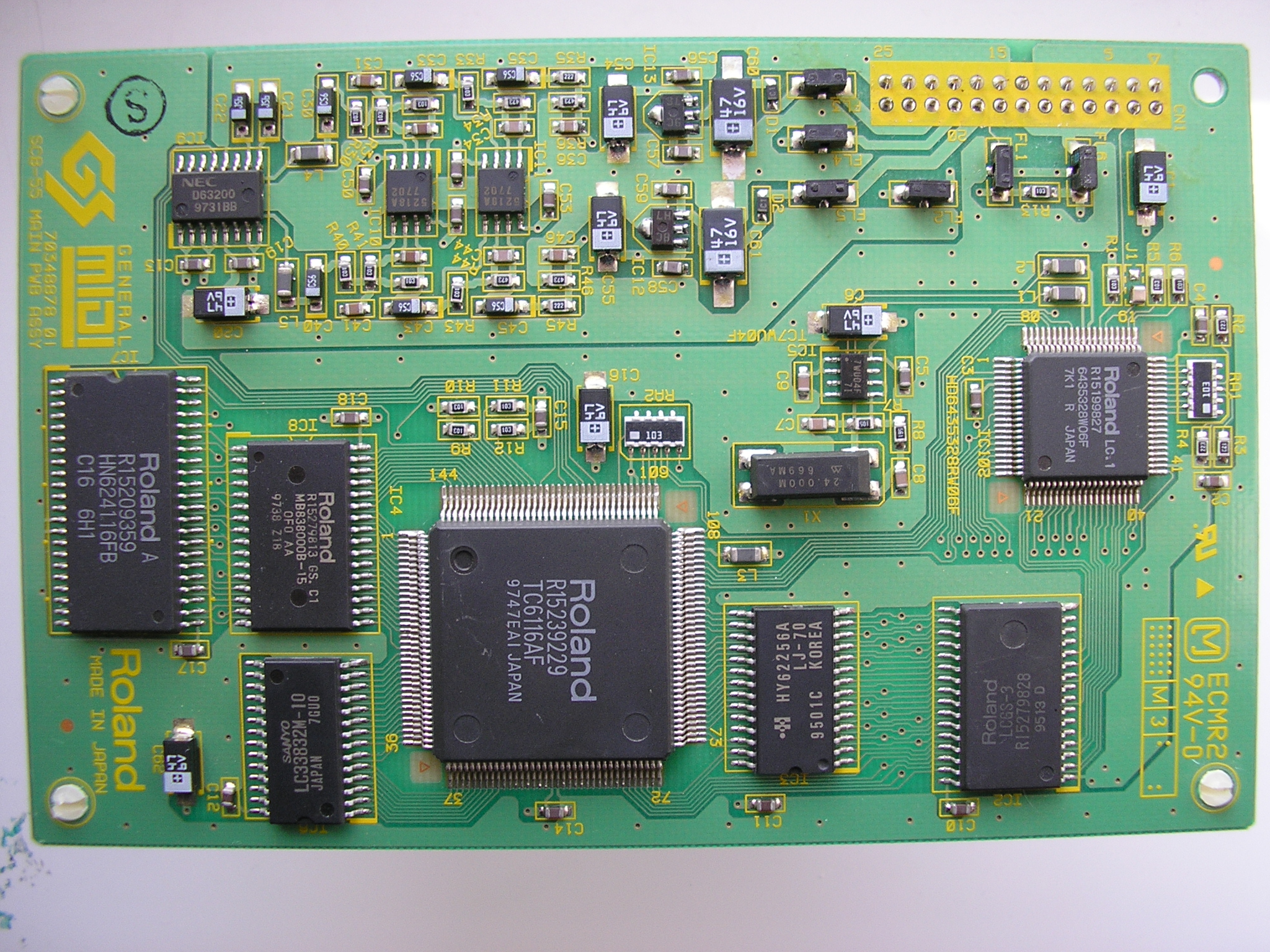 Roland SCB-55 daughterboard Sound Canvas General MIDI Roland GS 4MB wave ROM 354 sounds (instruments) 28 polyphony